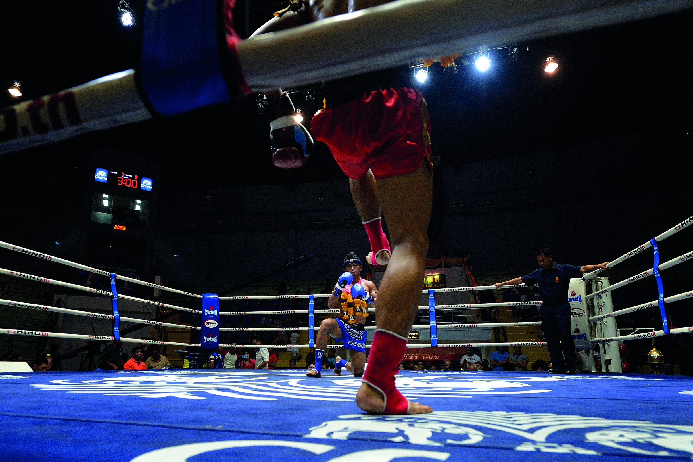 Lumpinee Boxing Stadium was originally located on Rama IV road, Pathumwan district, adjacent to the former Armed Forces Academies Preparatory School. The stadium was as high standard boxing arena as Rajadamnern Stadium. It was founded by then Maj.Gen.Praphas Charusathien, the commander of The 1st Division, The King's Guard, and named “Lumpinee” after a nearby landmark ‘Lumpinee Park’. The stadium hosted its first official fight on 15thMarch, 1956, and the grand opening ceremony was held on 8th December of the same year. Many Thai and international boxing matches took place here, one of those was the first world boxing champion of “Pone Kingpetch” vsPascualParez on Saturday evening 16th April, 1960 As the former stadium became too crowded, the new one was constructed in a much larger area within the Royal Thai Army Sports Centre, on Ram Indra road, Bangkaen district. The new stadium holds boxing bouts on Tuesdays and Fridays, from 18:00 to 22:00, and on Saturdays from 17:00 to 00:30, closed on religious days.